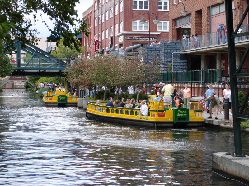 Bricktown Canal Water Taxis in Oklahoma City